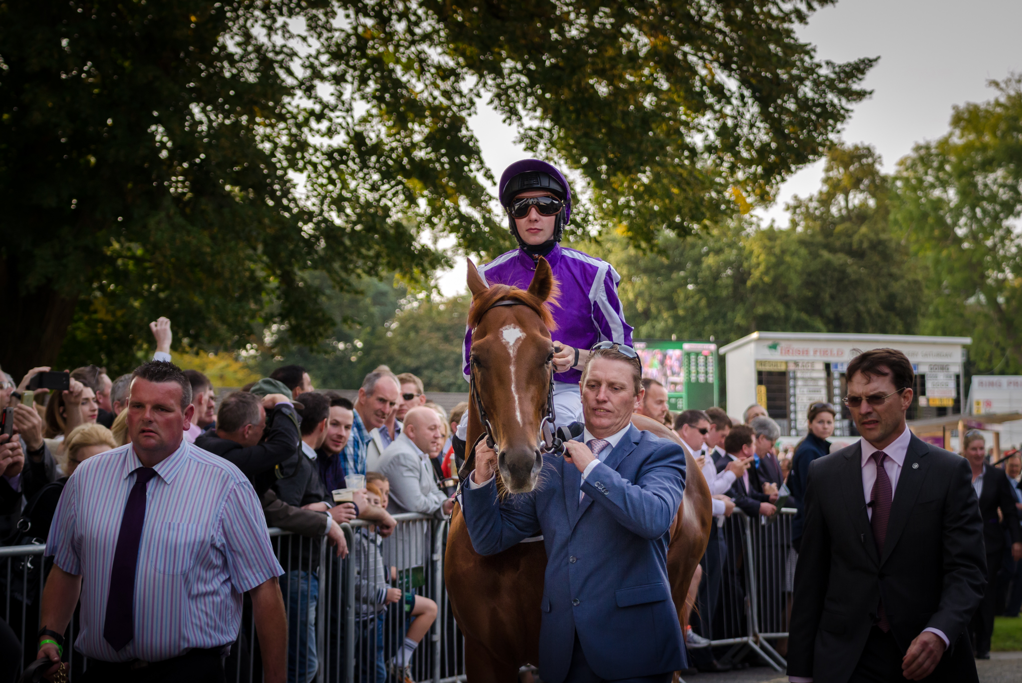 Leopardstown, Irish Champions Weekend